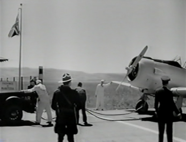 Cropped screenshot of from the film A Yank in the R.A.F.